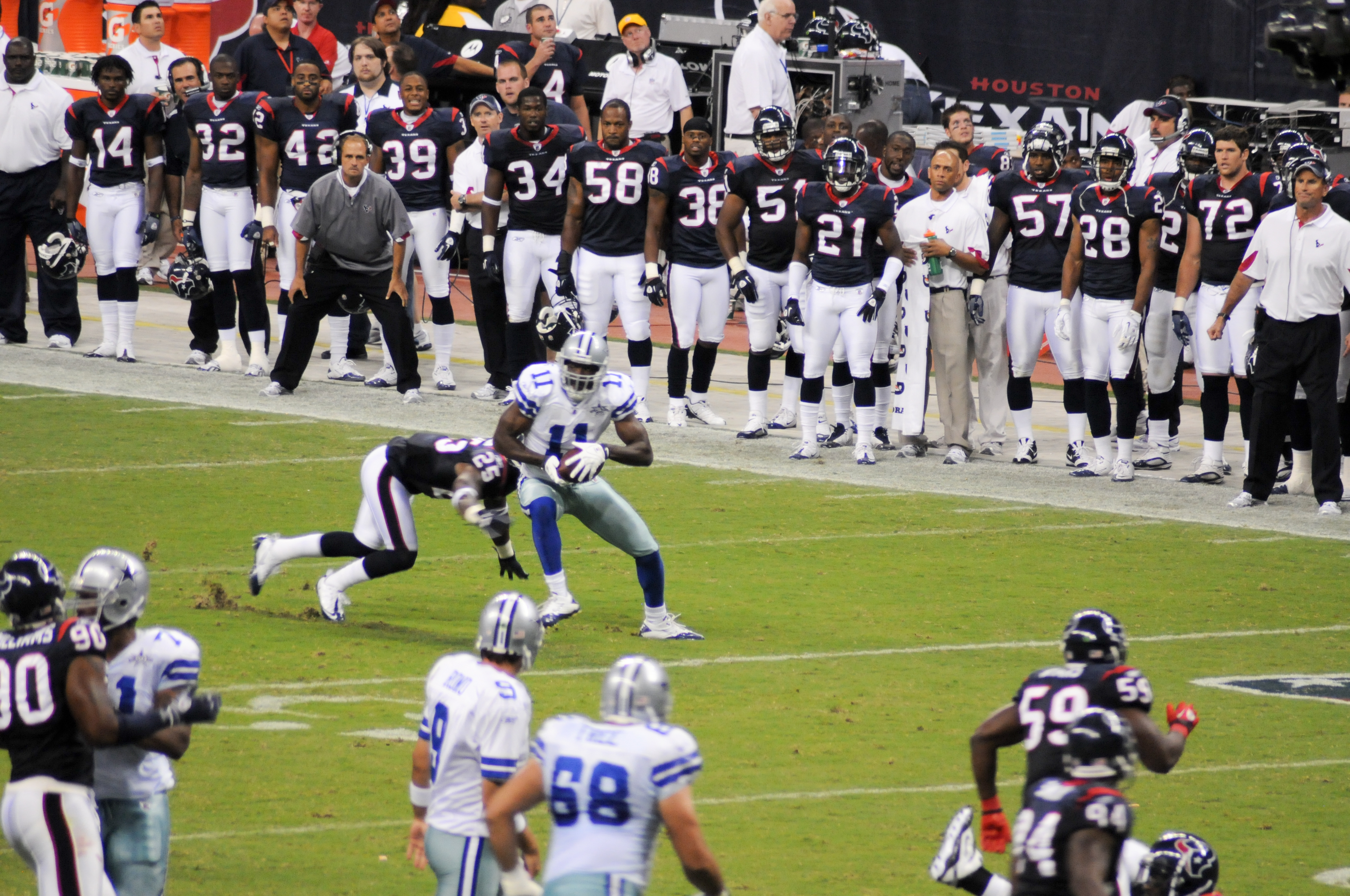 Roy Williams of the Dallas Cowboys evades a tackle in a game against the Houston Texans in a 2010 preseason NFL game at Reliant Stadium in Houston, Texas.